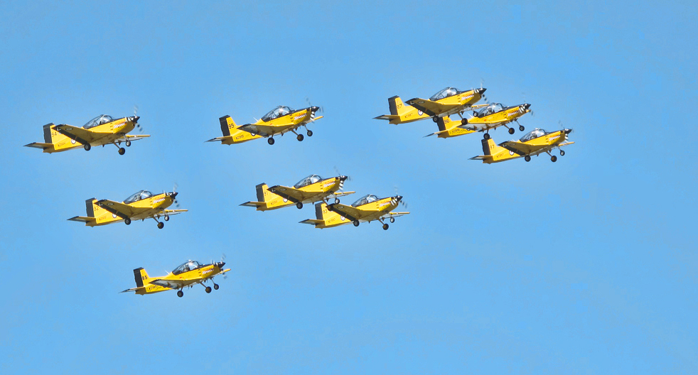 CT/4E Airtrainers from the RNZAF Ohakea Pilot Training Squadron in formation at the Whenuapai air show on 21st of March 2009. Photo was taken by new user Greenkeeper.